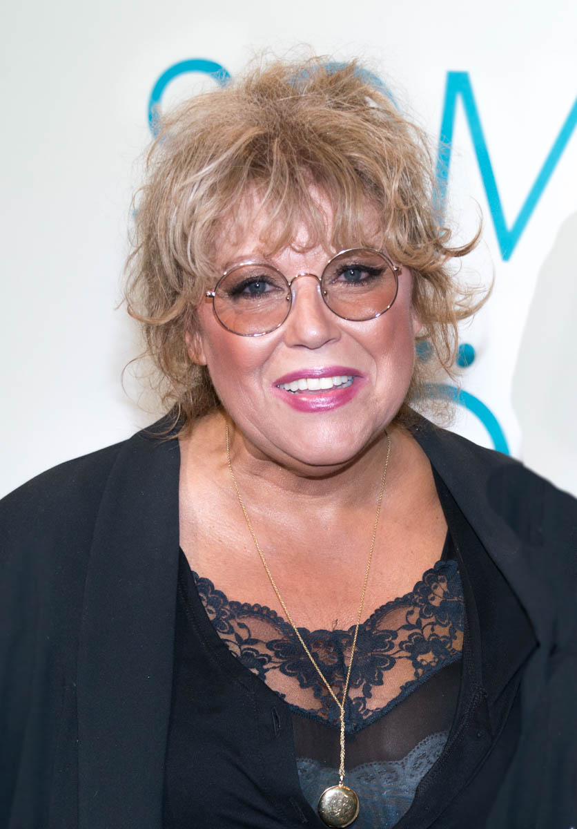 Marie Nilsson Lind, Summer host in P1, on the red carpet on her way into the Berwald Hall in Stockholm on June 13, 2019.